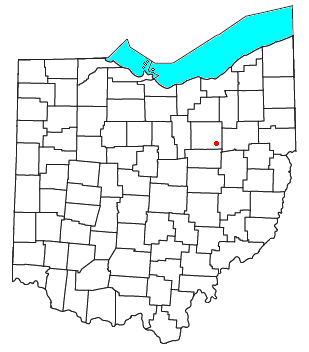 Locator map of the unincorporated community of Kidron in Wayne County, Ohio, United States.